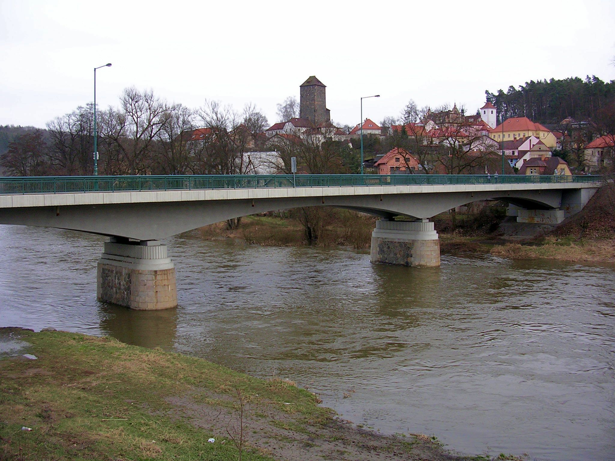 Týnec nad Sázavou, the Czech Republic. A bridge, a castle, a city center, view from LIDL shop.